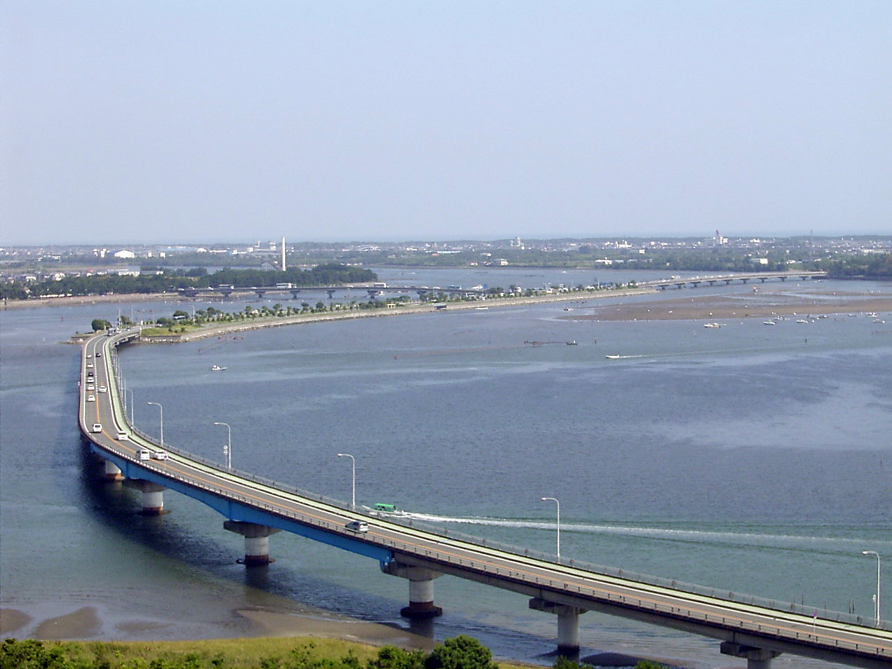 Hamanako-Ohashi, in Hamamatsu, Shizuoka, Japan.